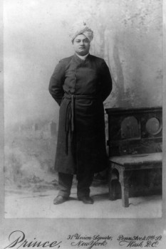 Swami Vivekananda in New York 1895 (probably between February to June)